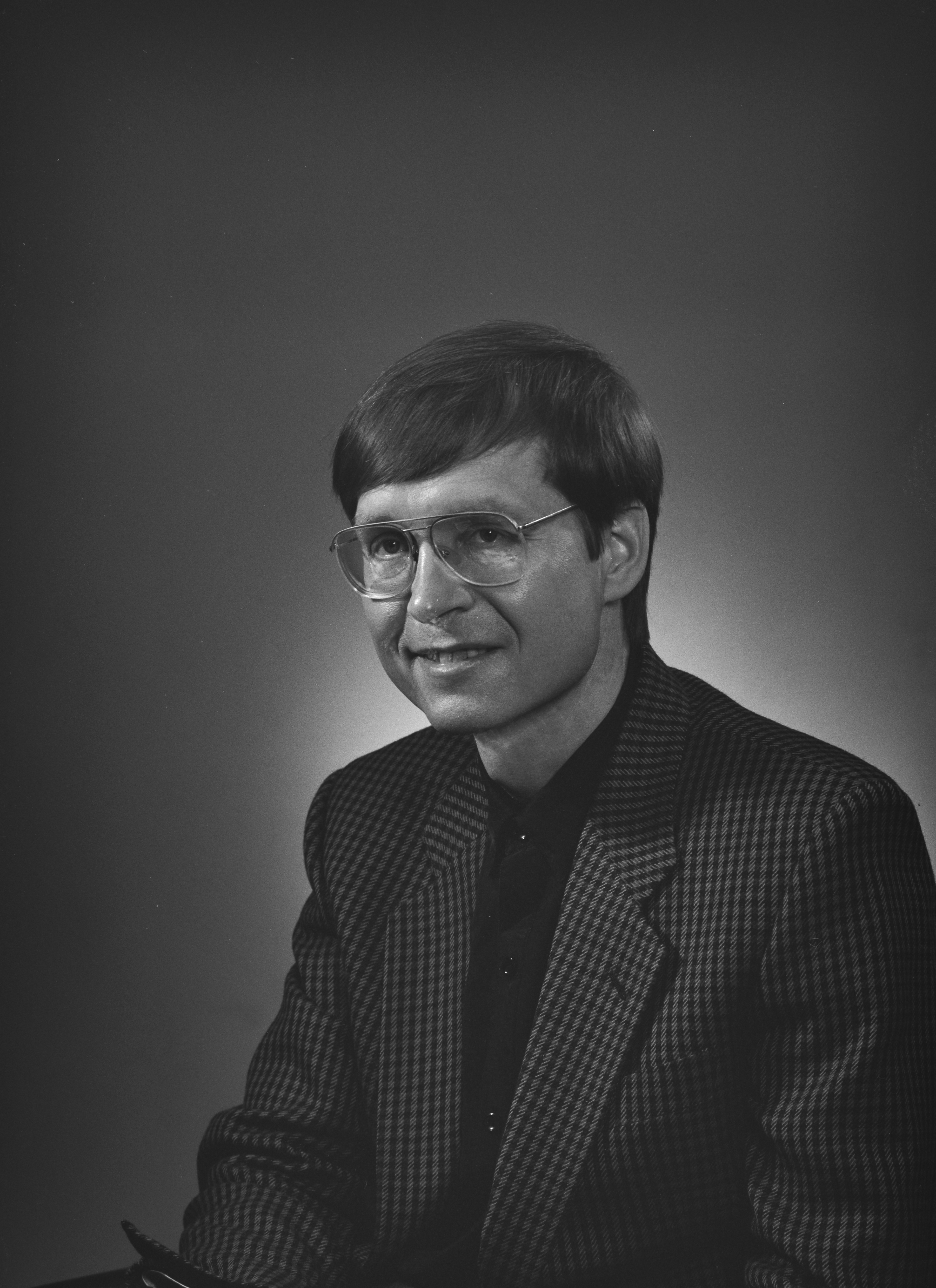 Photograph of the Finnish Assyrologist Simo Parpola (1943–).